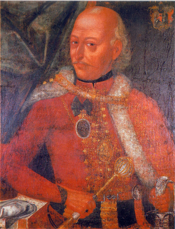 Jovan Tekelija, 18th-century portrait of unknown author